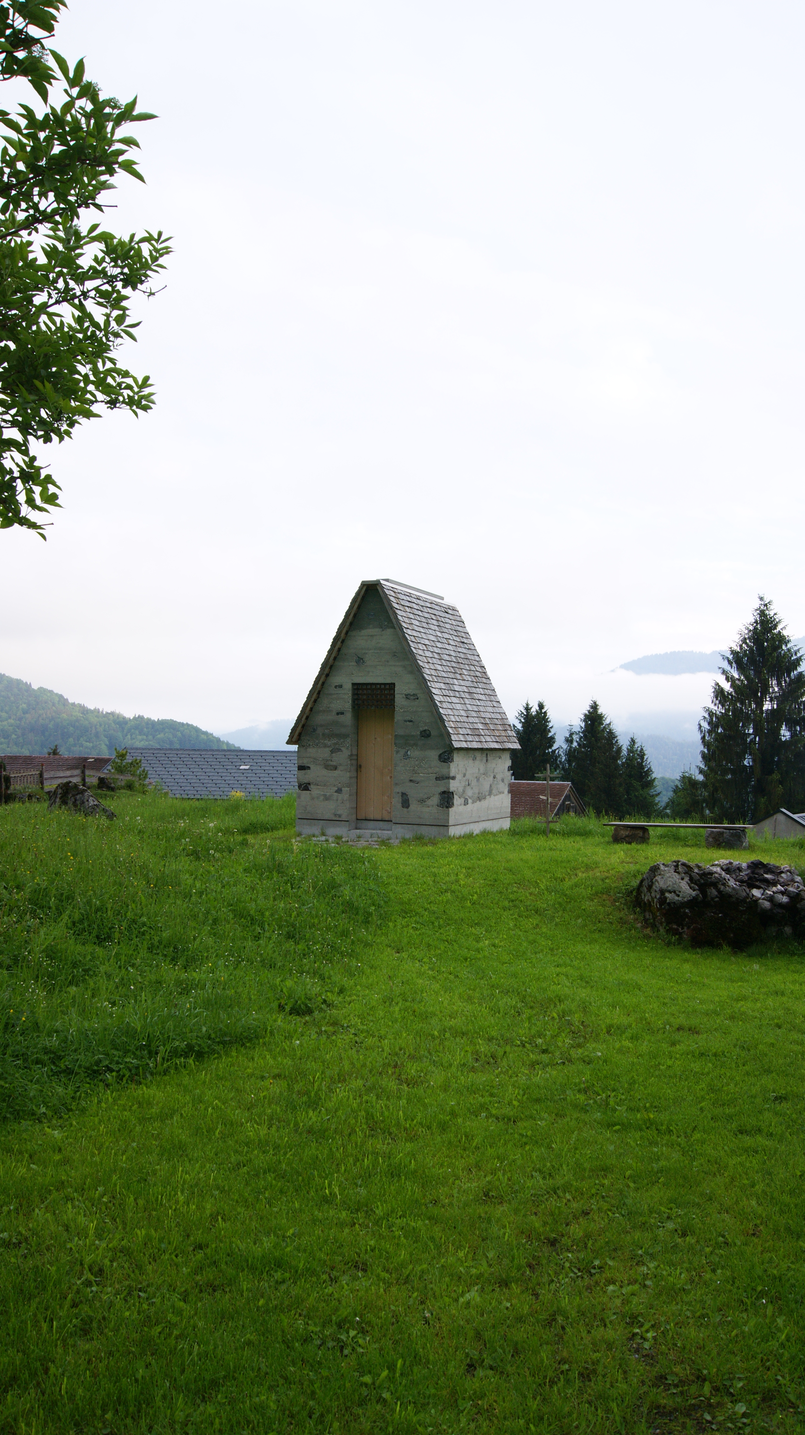 Moutain chapell Wirmboden in Schnepfau, Vorarlberg, Austria. 920 masl, rebuilt after an avalanche in 2016.